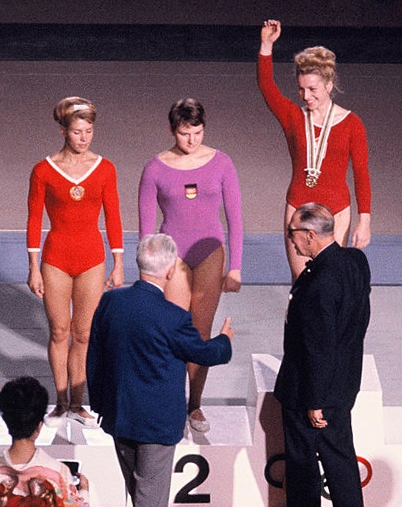 Gold Medalist Vera Caslavska (R) of Czechoslovakia, Silver Medalists Larysa Latynina (L) of Soviet Union and Birgit Radochla (C) of Germany on the podium during Women's Horse Vault medal ceremony of the Artistic Gymnastics during the Tokyo Olympics at Tokyo Metropolitan Gymnasium on October 22, 1964 in Tokyo, Japan.